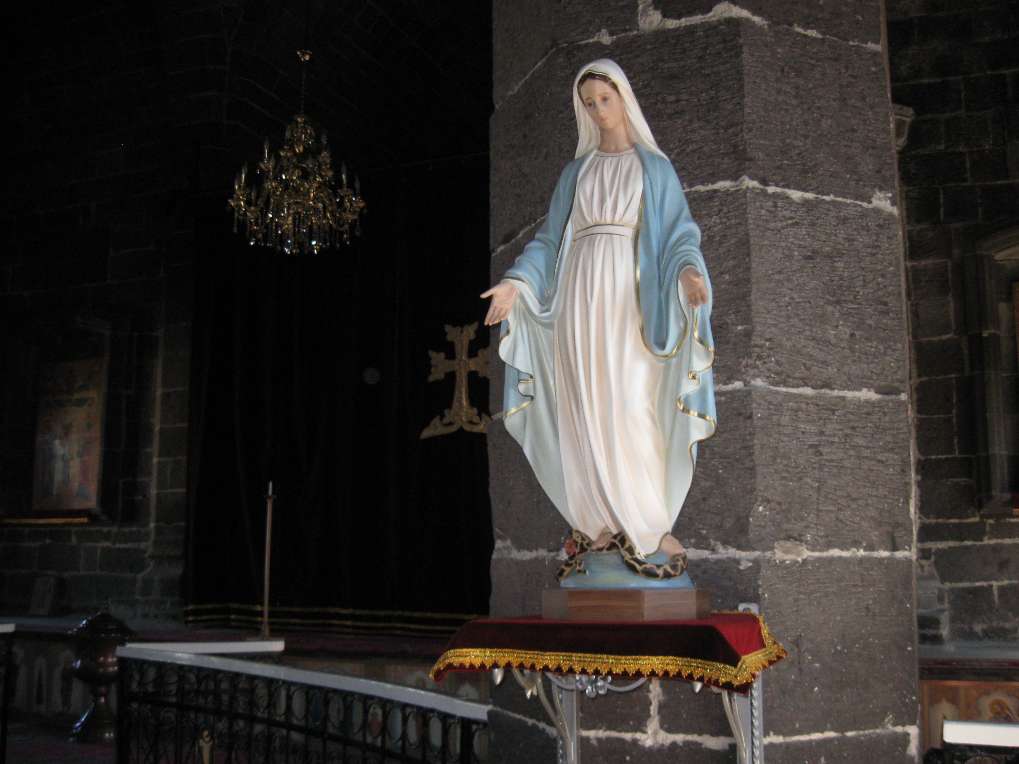 Arevik catholic church, Shirak, Armenia 20/3